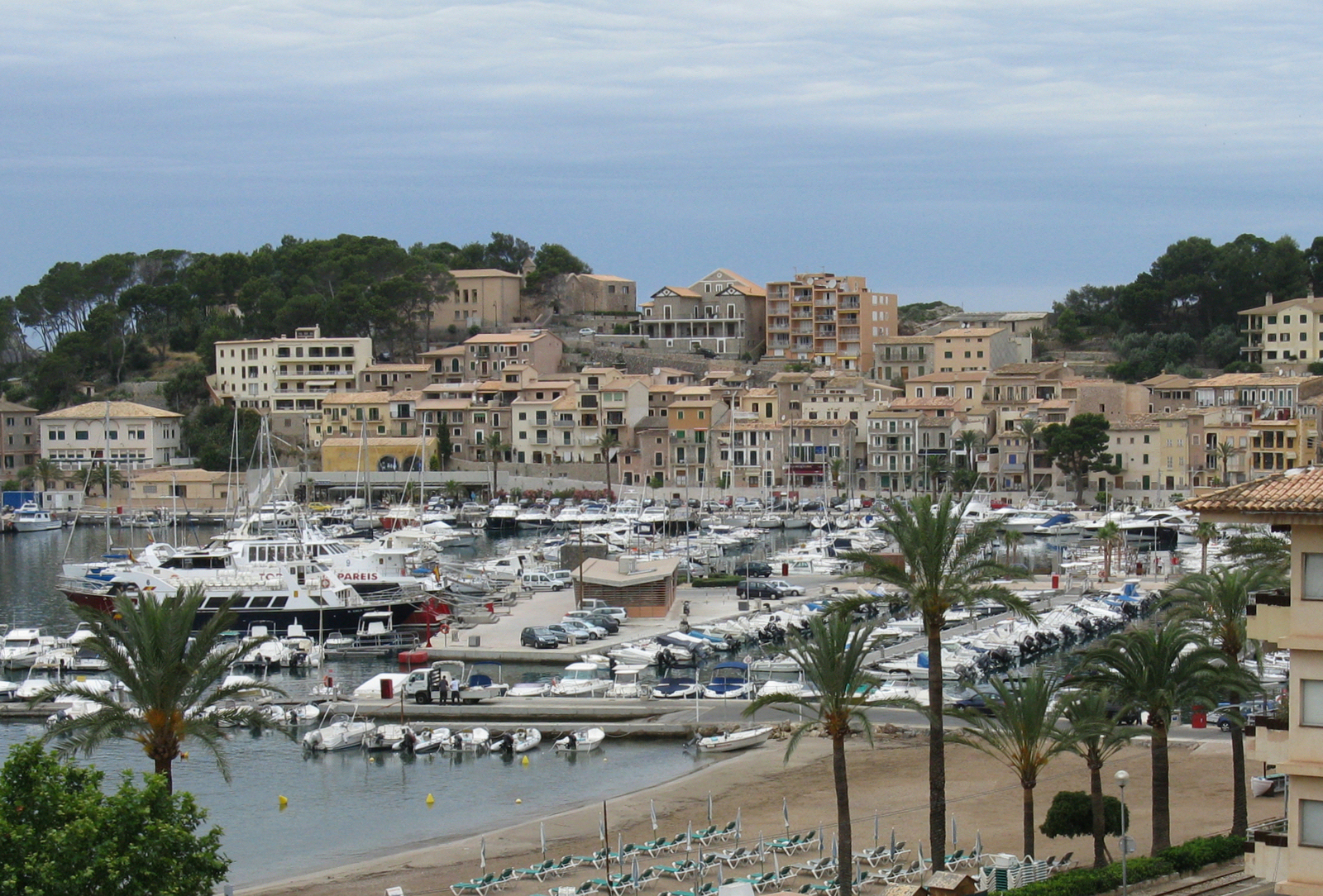 Port de Sóller, Majorca, Spain. The tram line from Port de Soller to Soller can just be seen at the extreme bottom right.